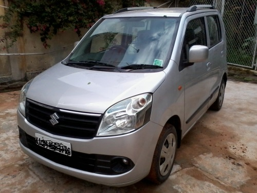 WagonR